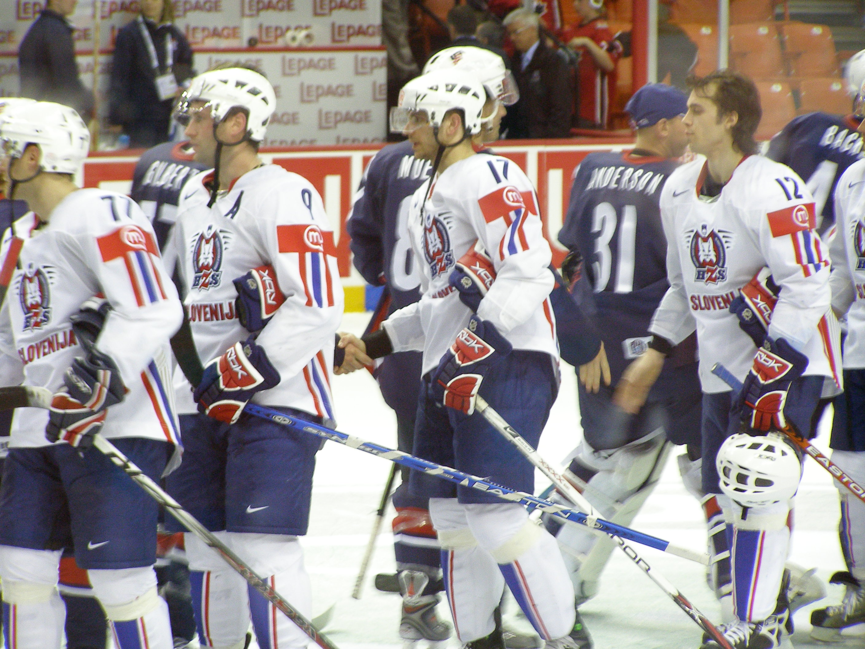 Slovenia VS USA (IIHF World Hockey Championship in Halifax NS, May 4 2008)